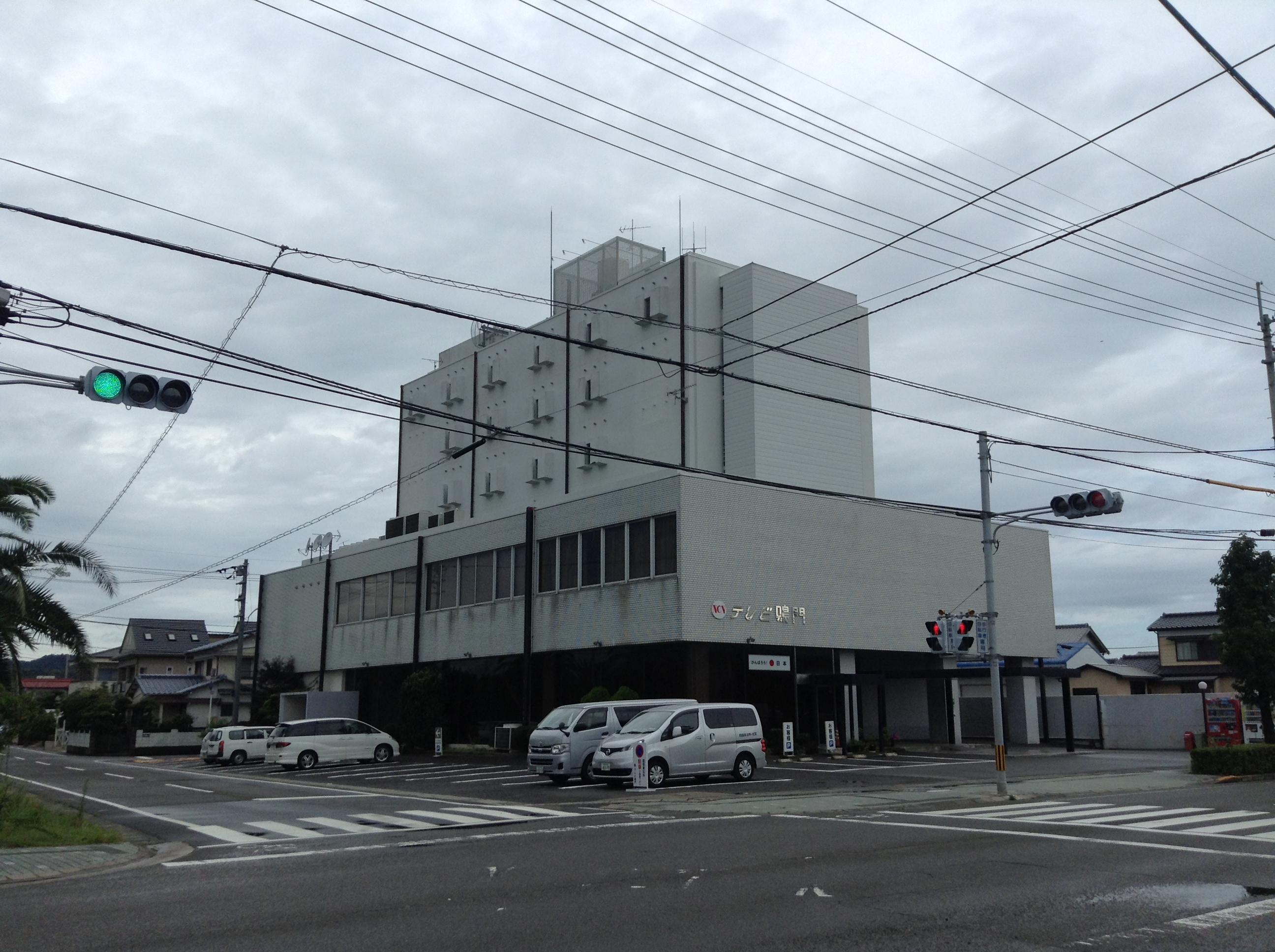 TV Naruto Inc. headquarter in Naruto-city, Tokushima-Prefecture.